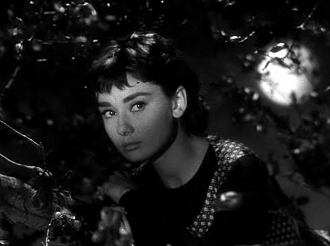 Screenshot of Audrey Hepburn from the trailer for the film Sabrina (1954 film).